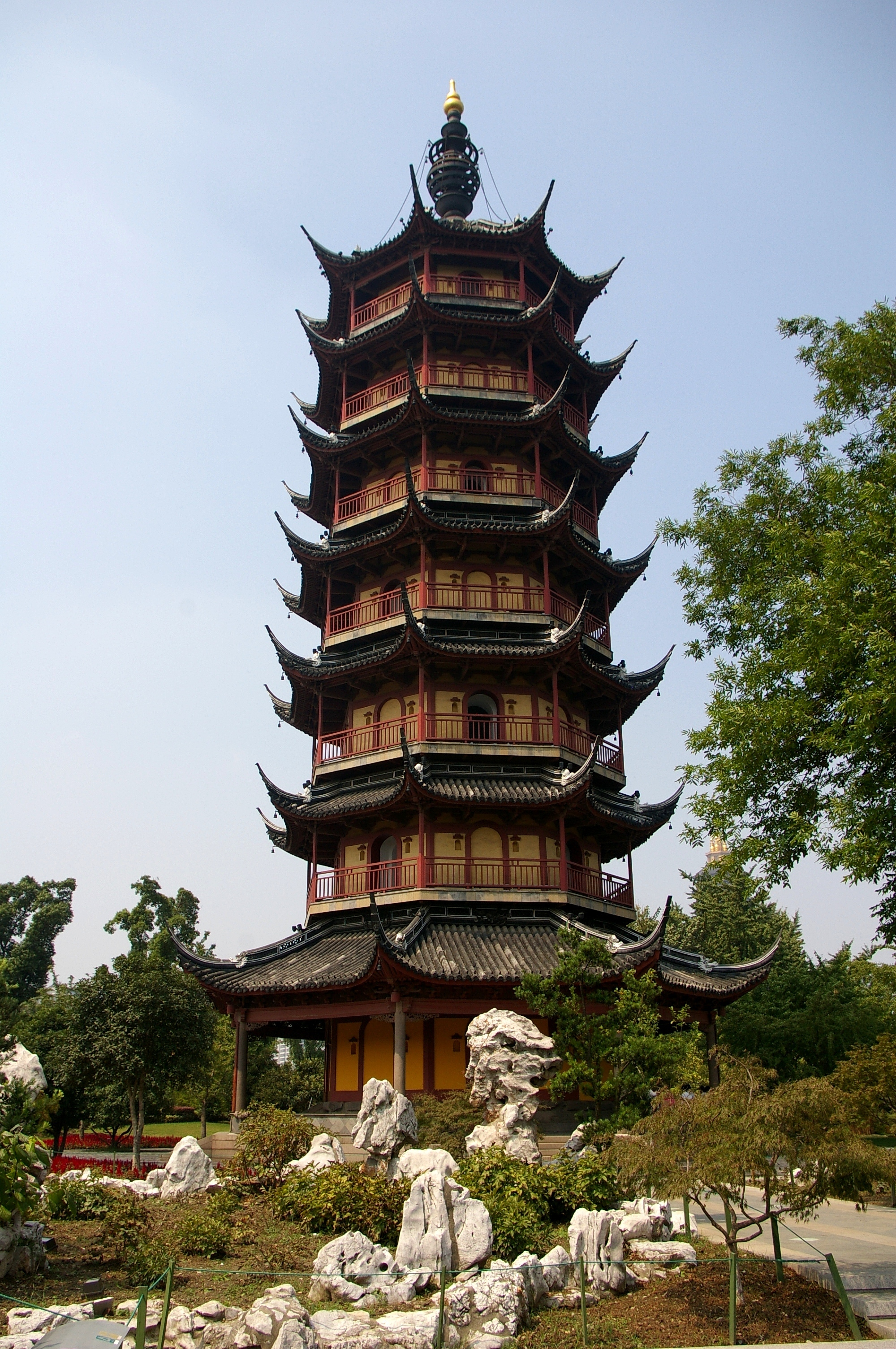 Wenbi Pagoda in Changzhou